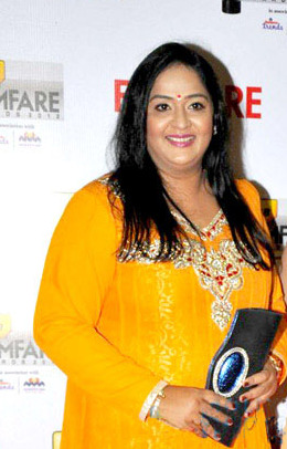 Radha and Tulasi at 60th South Filmfare Awards 2013